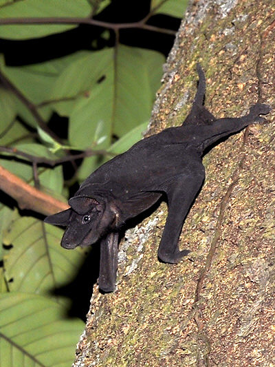 Hairless bat with black skin devoid of hair